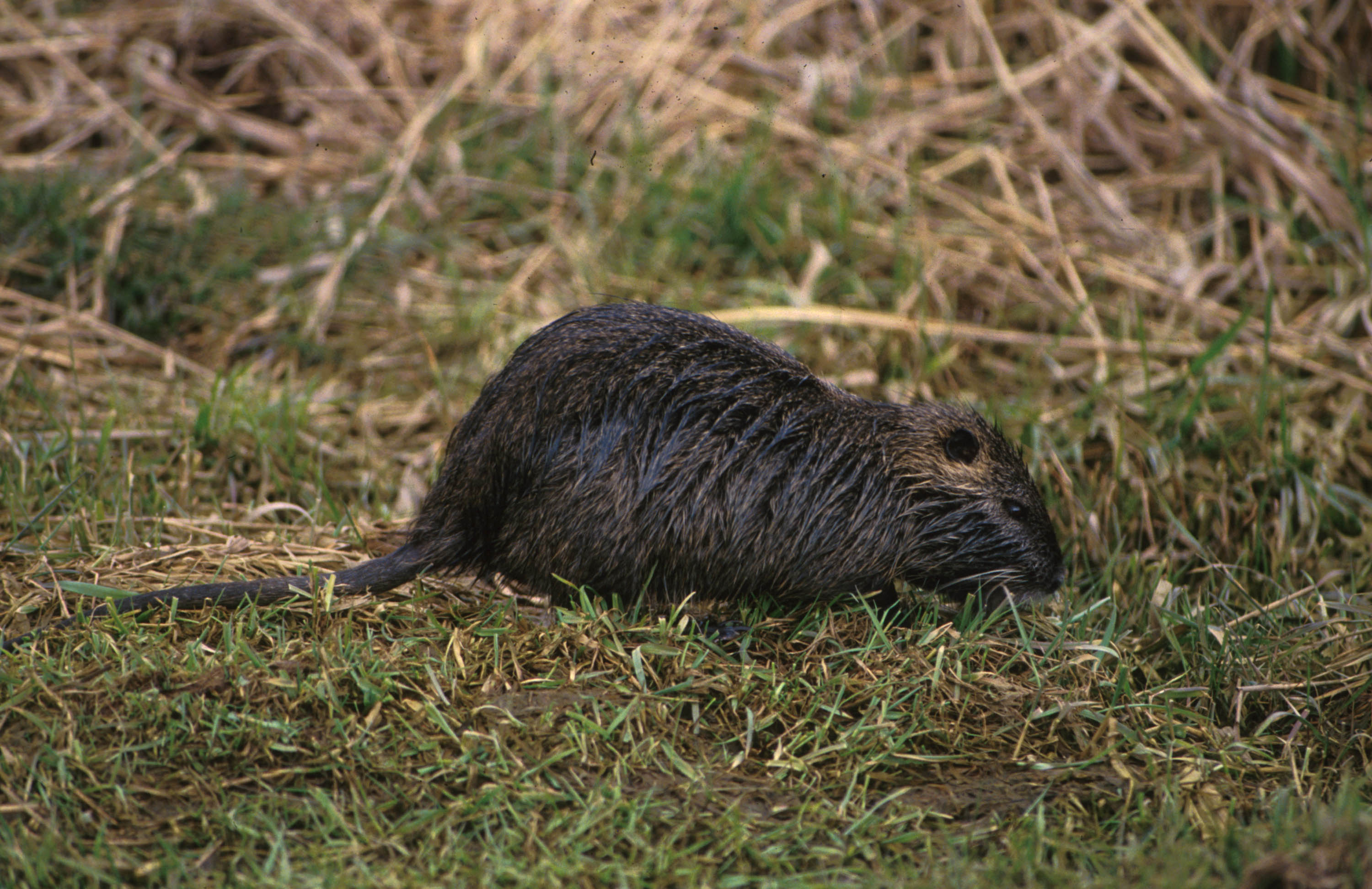 Nutria (Myocastor coypus)